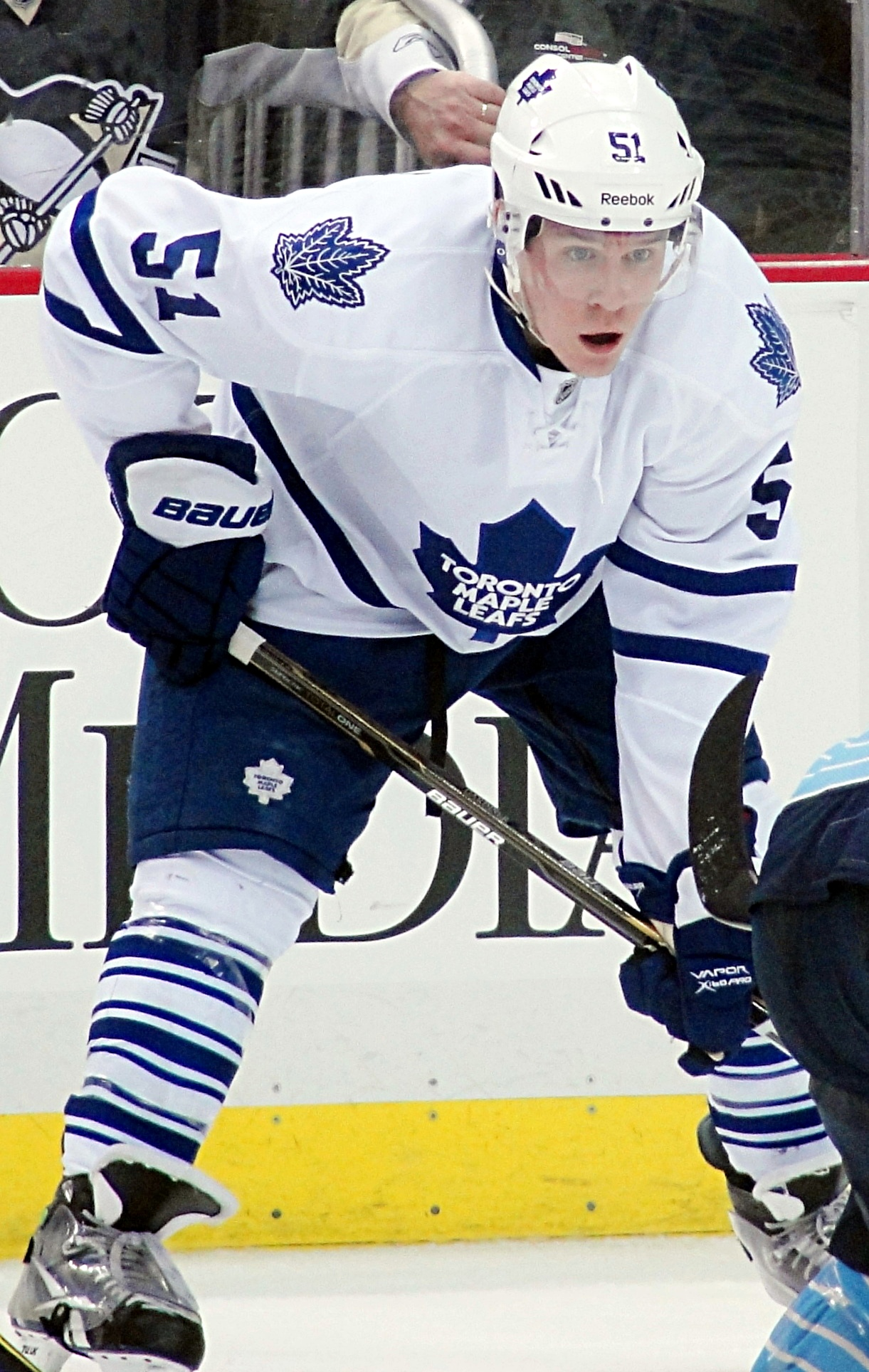 Toronto Maple Leafs forward Jake Gardiner skates against the Pittsburgh Penguins, March 7, 2012 at Consol Energy Center in Pittsburgh, PA.